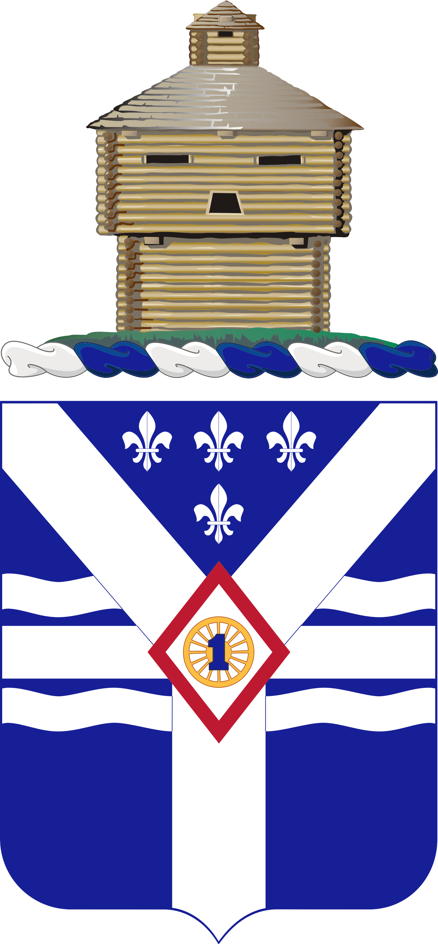 Description/Blazon Shield Azure, a closet between two wavy barrulets, surmounted by a pairle, Argent; overall the old insignia of the First Regiment of Infantry, Illinois National Guard, (wheel within a diamond) Proper; in chief four fleurs-de-lis, three and one, of the second. Crest That for the regiments and separate battalions of the Illinois Army National Guard: On a wreath of the colors Argent and Azure, upon a grassy field the blockhouse of old Fort Dearborn Proper. Motto DUCIT AMOR PATRIAE (Led By Love Of Country). Symbolism Shield The shield is blue ? the present Infantry color, and the main charges are silver or white ? the old Infantry facing color. The pairle is taken from the Chicago seal: the first wavy barrulets represents Spanish-American War service, the closet Mexican Border duty, and the second wavy barrulets the second time the organization was in Federal service overseas. The four fleurs-de-lis represent the engagements during World War I. The charge in the fess point is the insignia of the old First Regiment of Infantry, Illinois National Guard. Crest The crest is that of the Illinois Army National Guard. Background The coat of arms was approved on 19 April 1927.